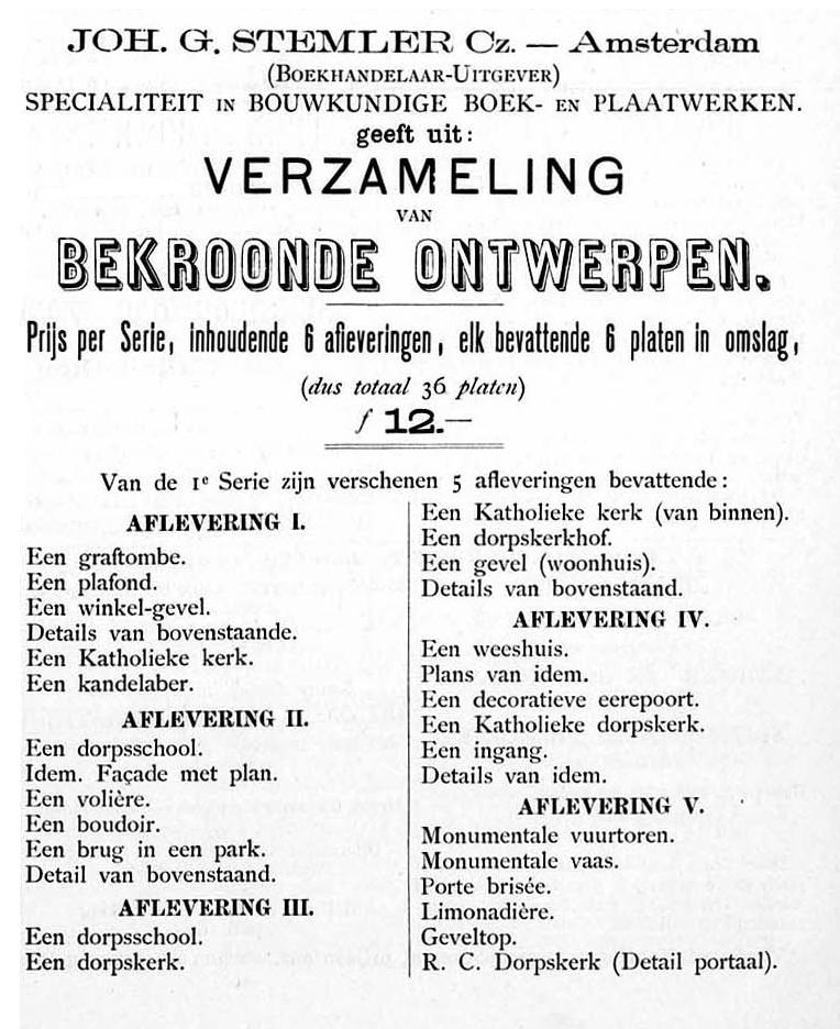 Advertisement for Verzameling van Bekroonde Ontwerpen.